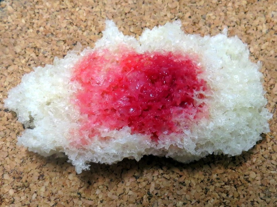 Growth of Serratia marcescens bacteria on bread slice